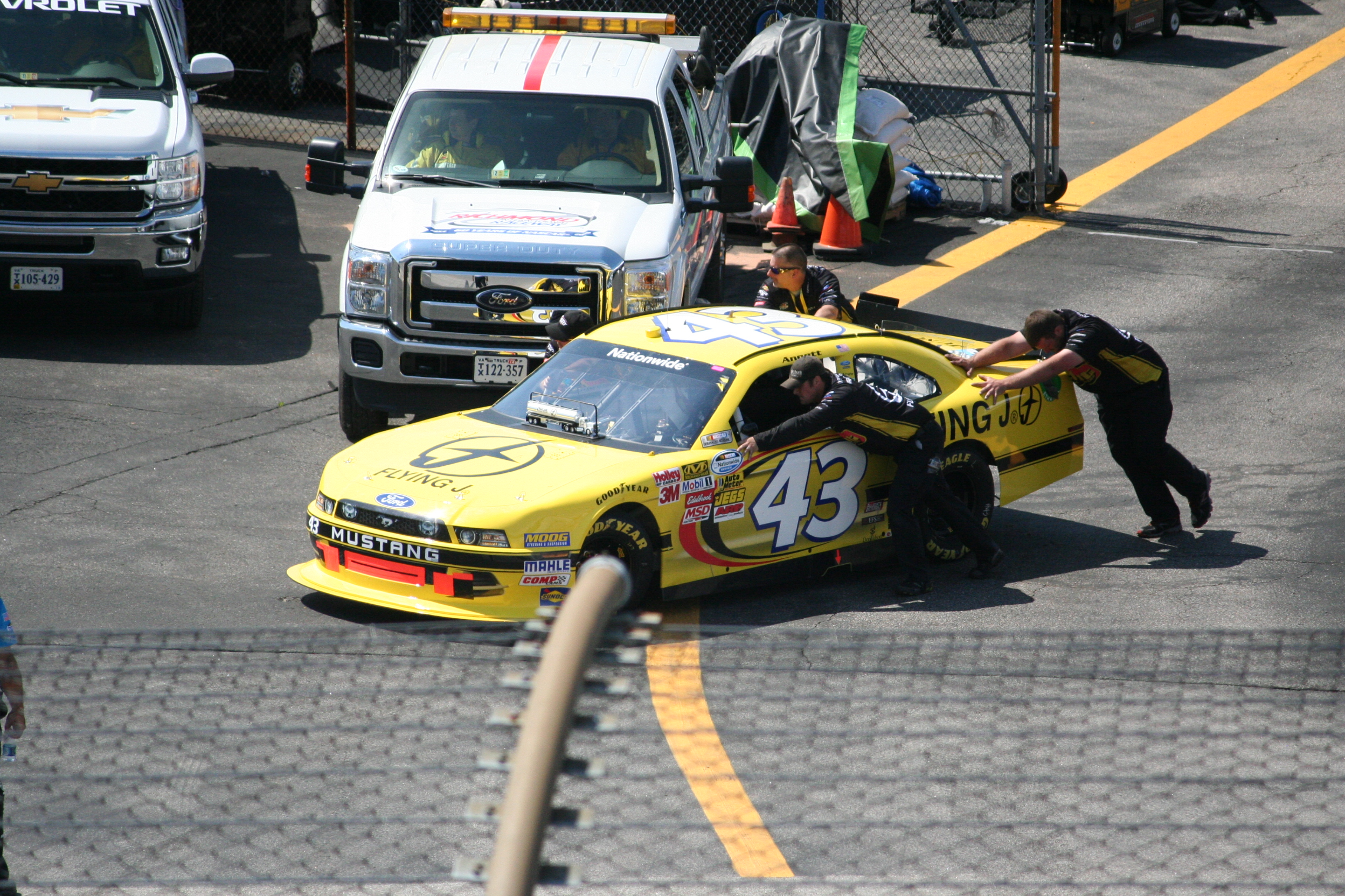 Reed Sorenson's No. 43 Ford at Richmond International Raceway for the ToyotaCare 250, April 26 2013.